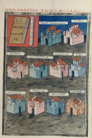 Dux tractus Armoricani et Nervicani from Notitia dignitatum.